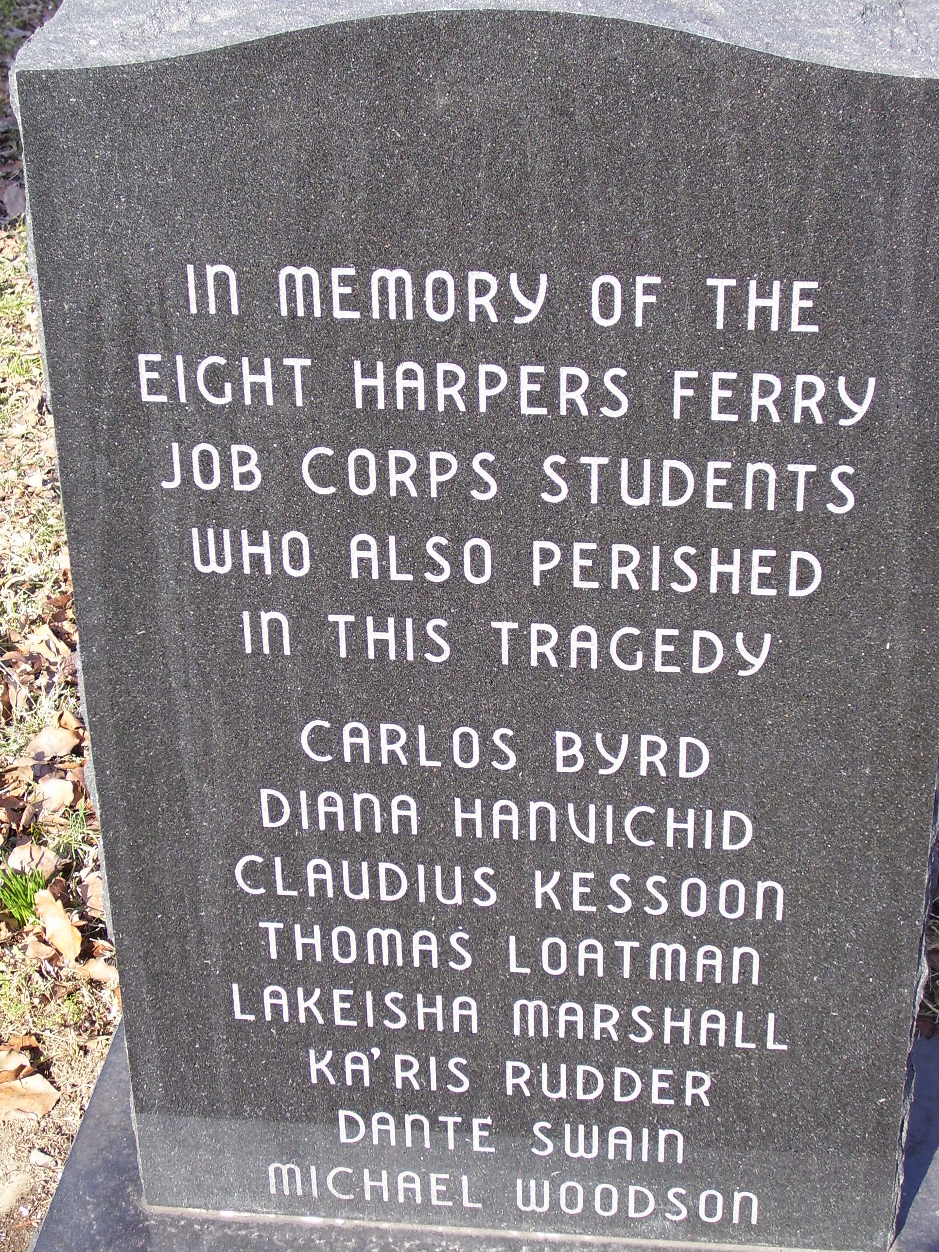 Taken by me User:Wrathchild-K on 3-February-2007, at the Brunswick train station. (Opposite side of :Image:Brunswick train crash memorial front.jpg)